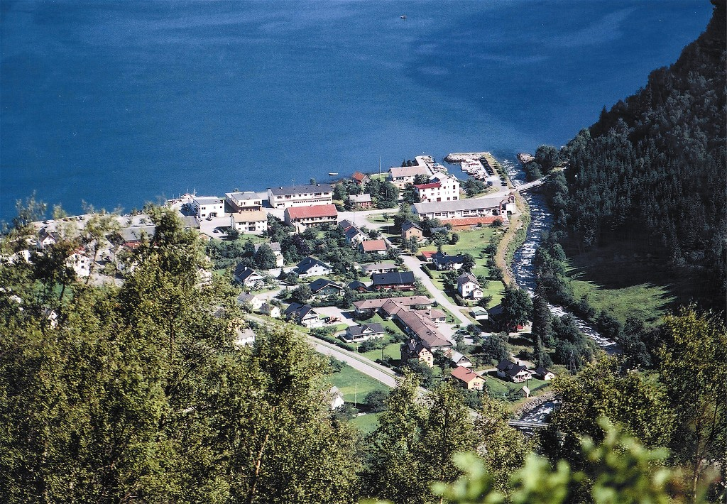 Picture of Eidsdal sentrum. Author: Bjørn Johan Storås